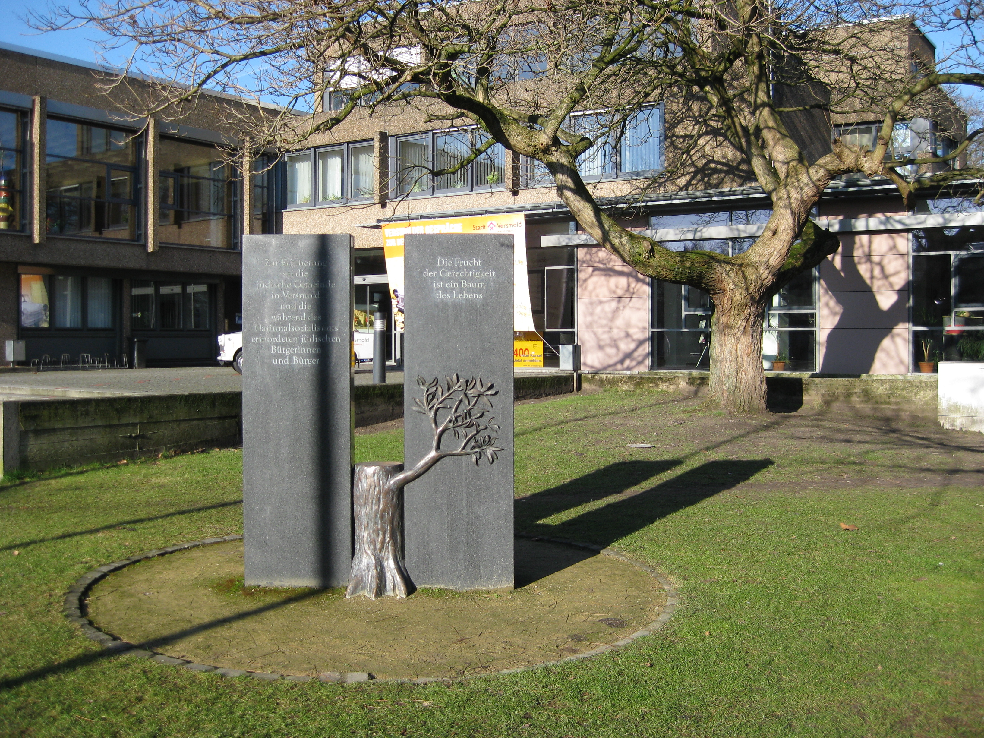 Memorial for the jewish parish in Versmold, text on infoboard for the memorial: In 2000, this remarkable memorial was unveiled in a solemn ceremony by Paul Spiegel, the former chairman of the Central Consistory of Jews in Germany. Since then, it has stood as a reminder of the terrible fate of the Jewish community of Versmold who perished in the Third Reich.